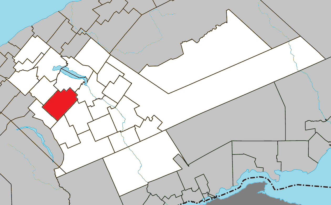 Location of Sainte-Irène, Quebec within La Matapédia Regional County Municipality.